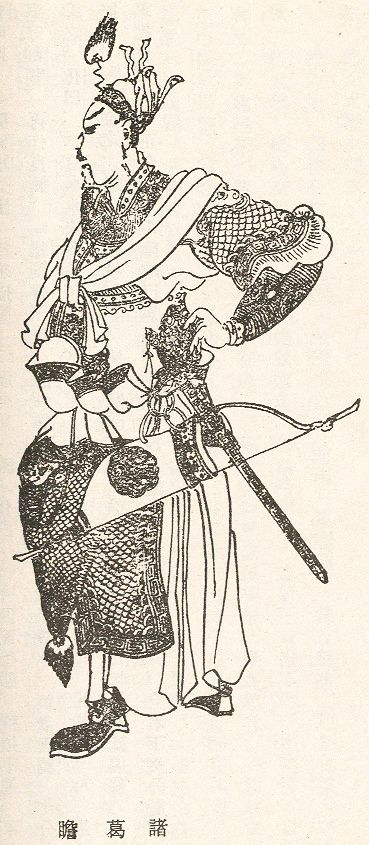 Portrait of the officer Zhuge Zhan from a Qing Dynasty edition of The Romance of the Three Kingdoms.